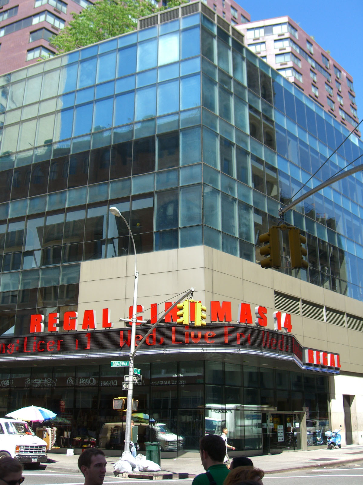 The Regal Theater in Union Square in Manhattan. Taken July 12, 2007 by Nightscream.